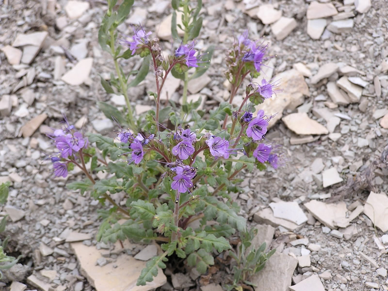 Phacelia argillacea. In the Uinta National Forest of Utah.